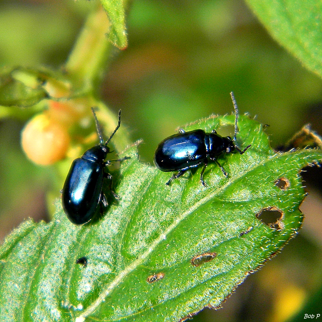 Metallic blue flea beetles munching on leaves of.....oops, I forgot what plant they were eating! Anyway, it was along an access road at Jupiter Ridge Natural Area. Larva & adult both eat plants that are very specific to that species, which makes it even worse that I didn't record the food plant. Later that morning, I met a MUCH cooler metallic blue beetle species in the same park, which I will try and post tomorrow.